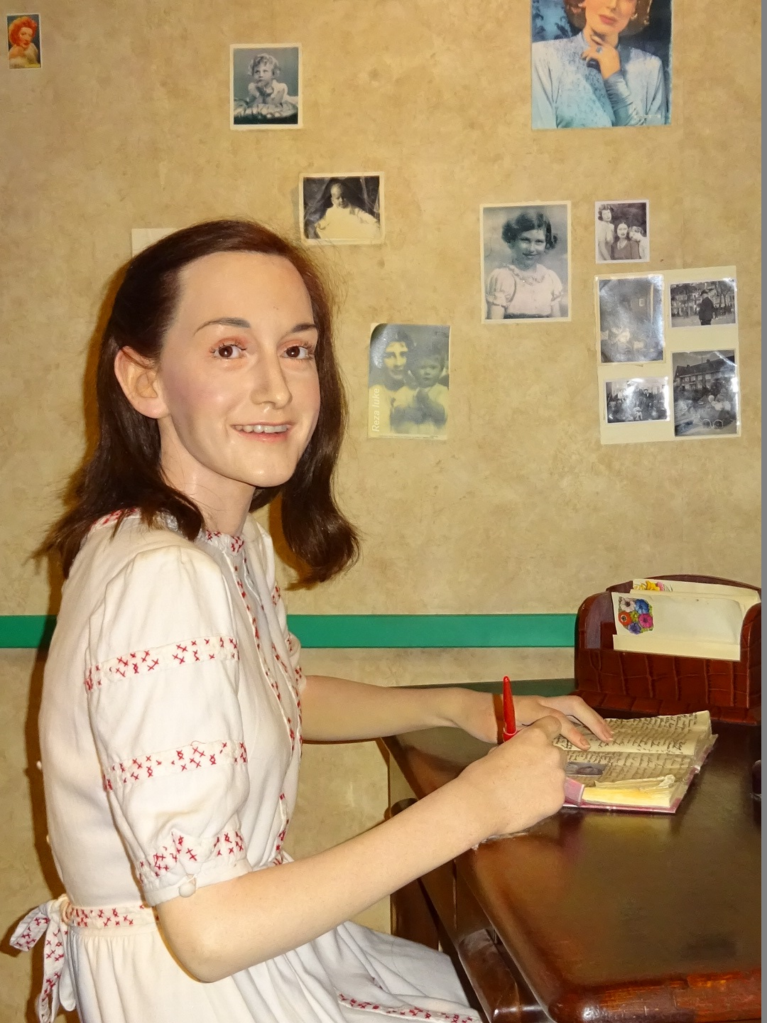 Statue of Anne Frank in Amsterdam